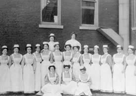 Early Memphis nursing students at the present-day University of Tennessee Health Science Center.